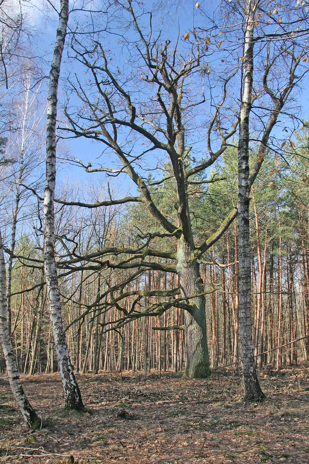 Protected group of Pedunculate Oaks (Quercus robur) in game preserve near Hrádek u Nechanic chateau,Hradec králové District, Czech Republic